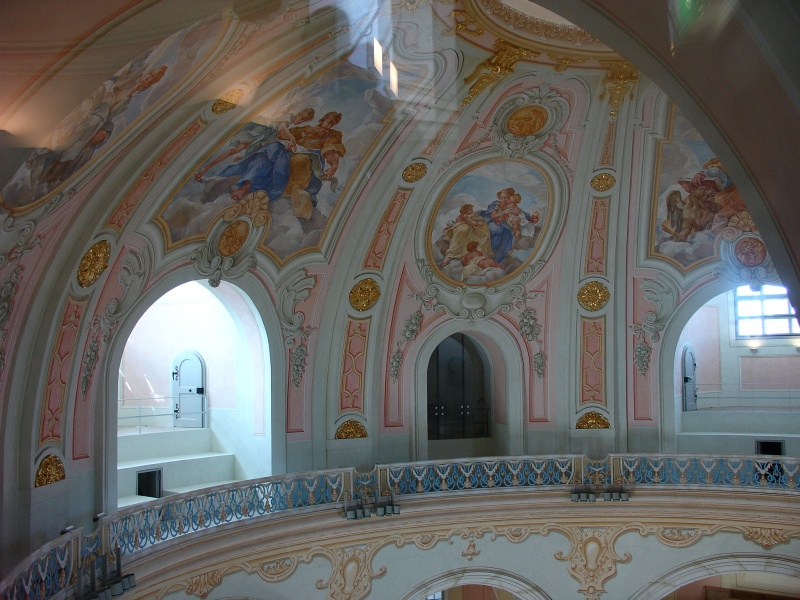 ornamental painting of the Frauenkirche'cupola in Dresden